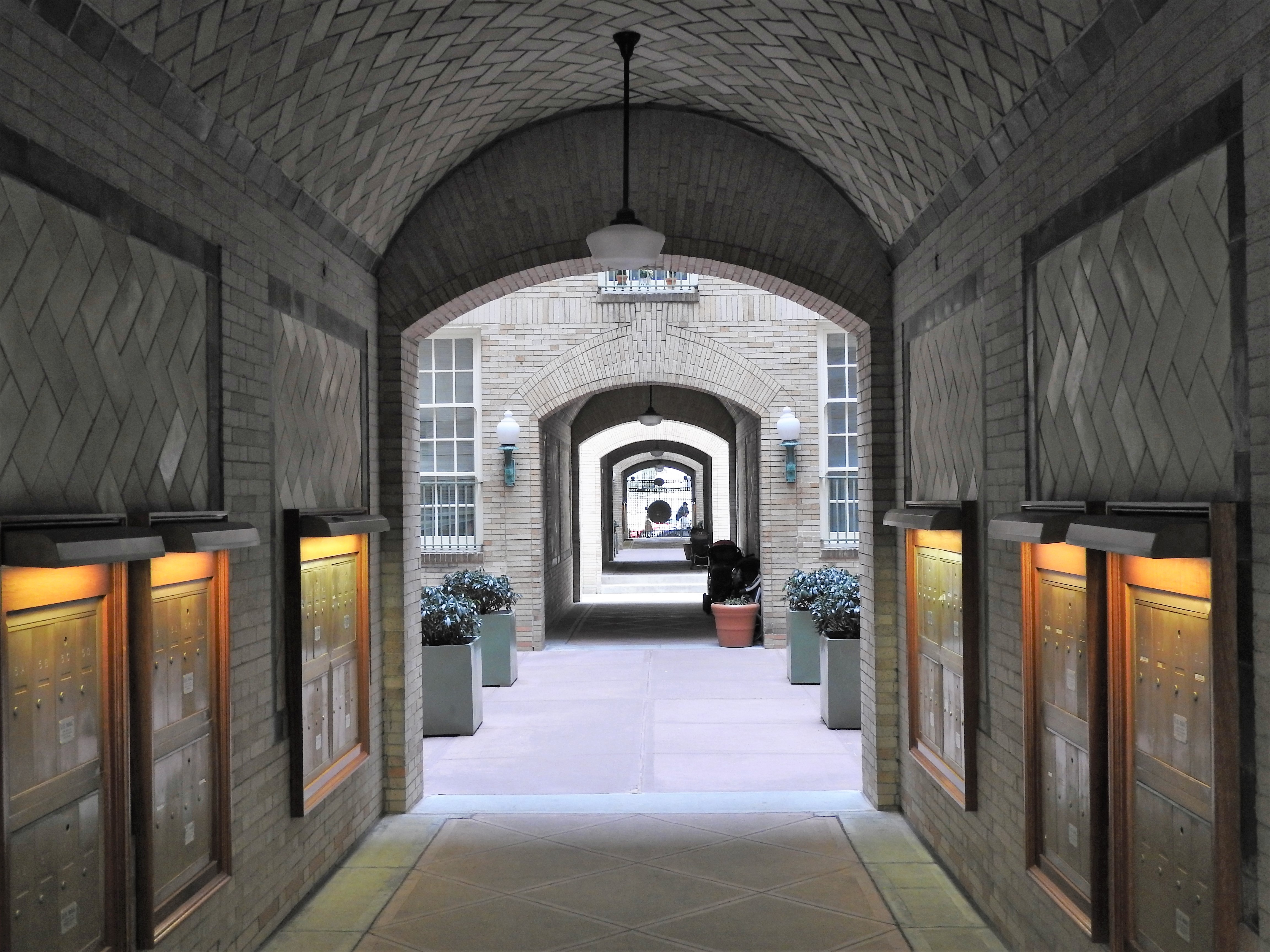 Looking south from 78th Street